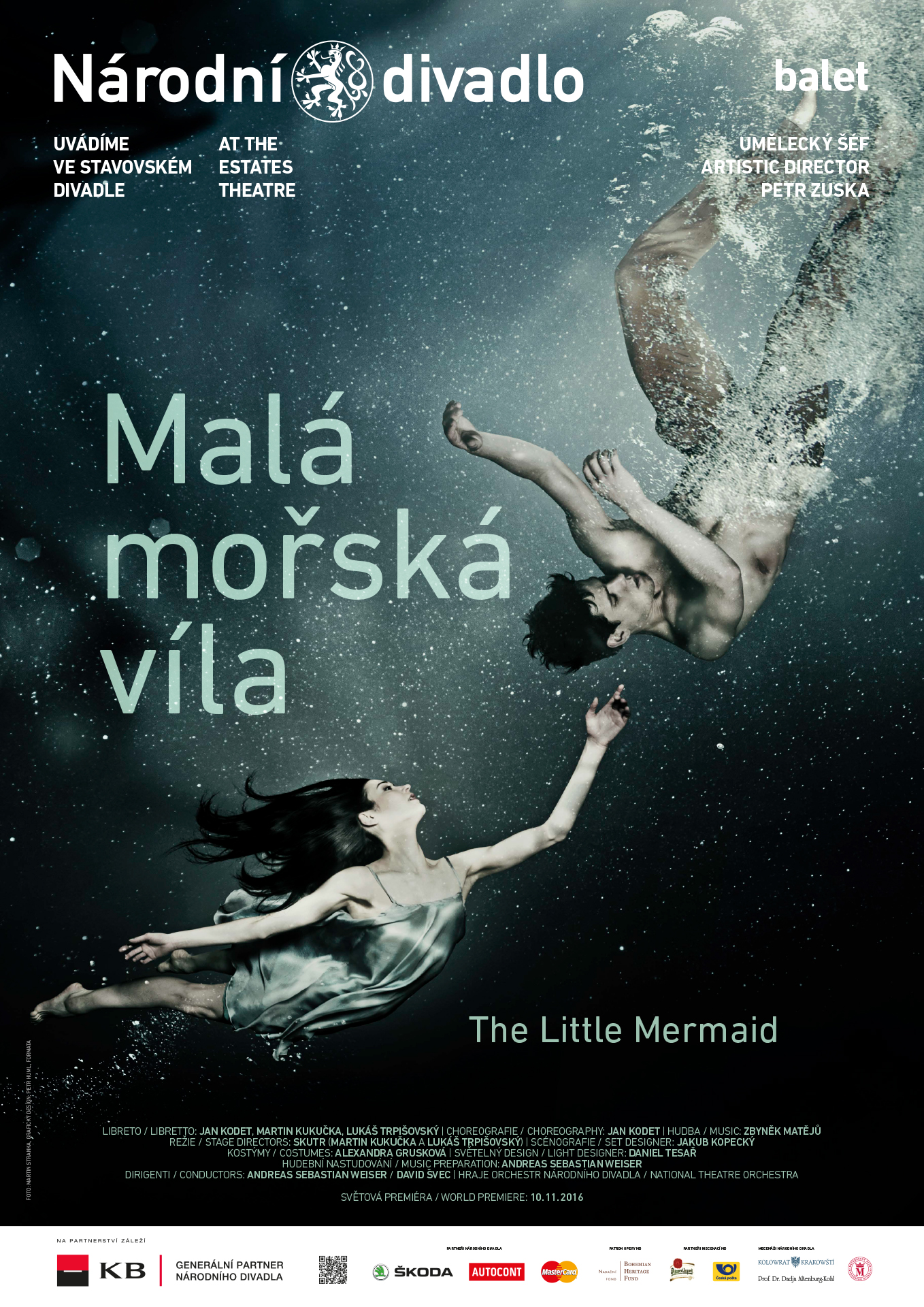 Martin Stranka's photography visual for the performance of the National Theater Ballet on the stage of The Estates Theater The Little Mermaid, Ballet based on the Theme of H. Ch. Andersen.